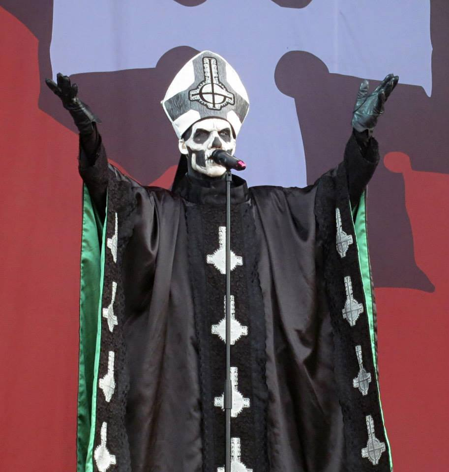 Papa Emeritus performing with Ghost at Download Festival